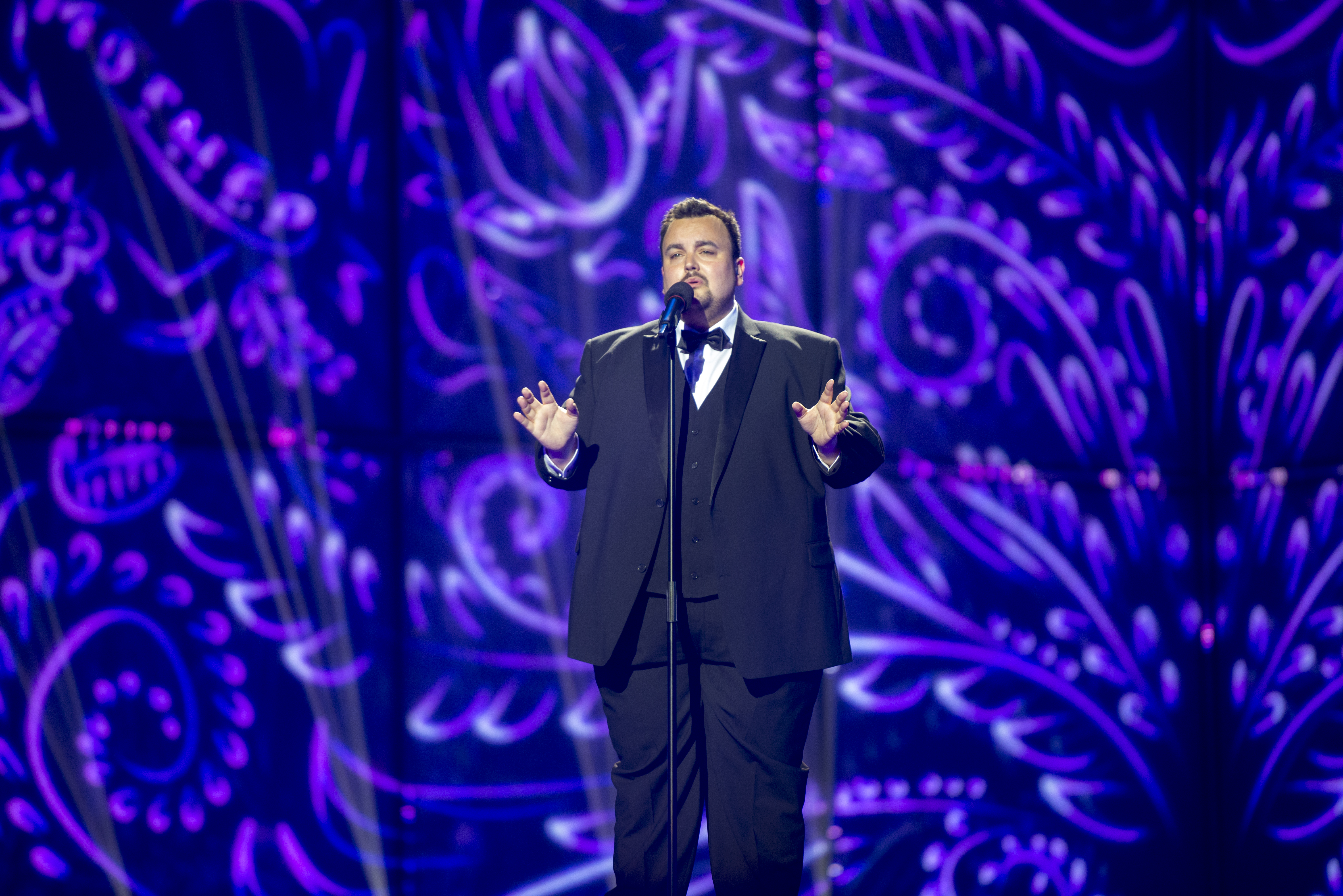 Axel Hirsoux representing Belgium with the song "Mother" during the first dress rehearsal of the first semi final of the Eurovision Song Contest 2014 Copenhagen. (Help translate this text)